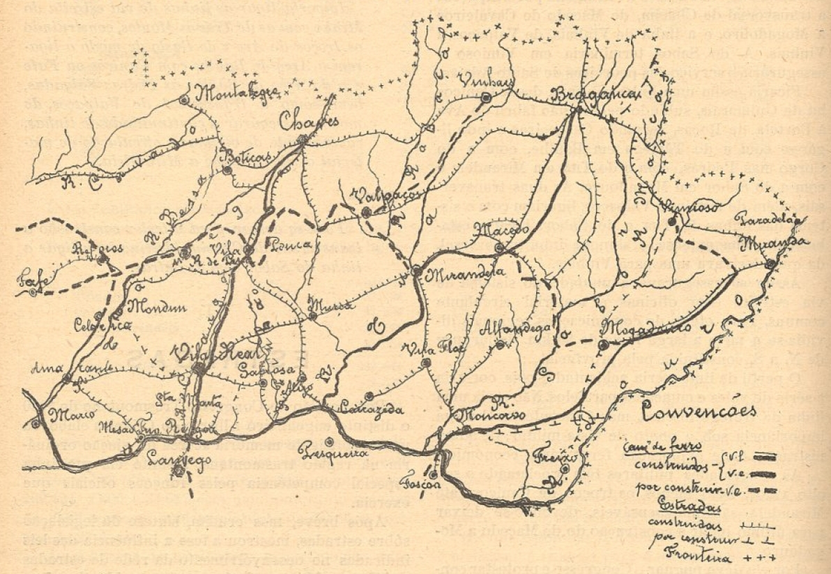 Map of the Trás-os-Montes region, in Portugal, showing the built and projected road and rail routes. This photograph was published on the Gazeta dos Caminhos de Ferro magazine No. 1290, of 1st September 1941, and scanned by the Hemeroteca Municipal de Lisboa.